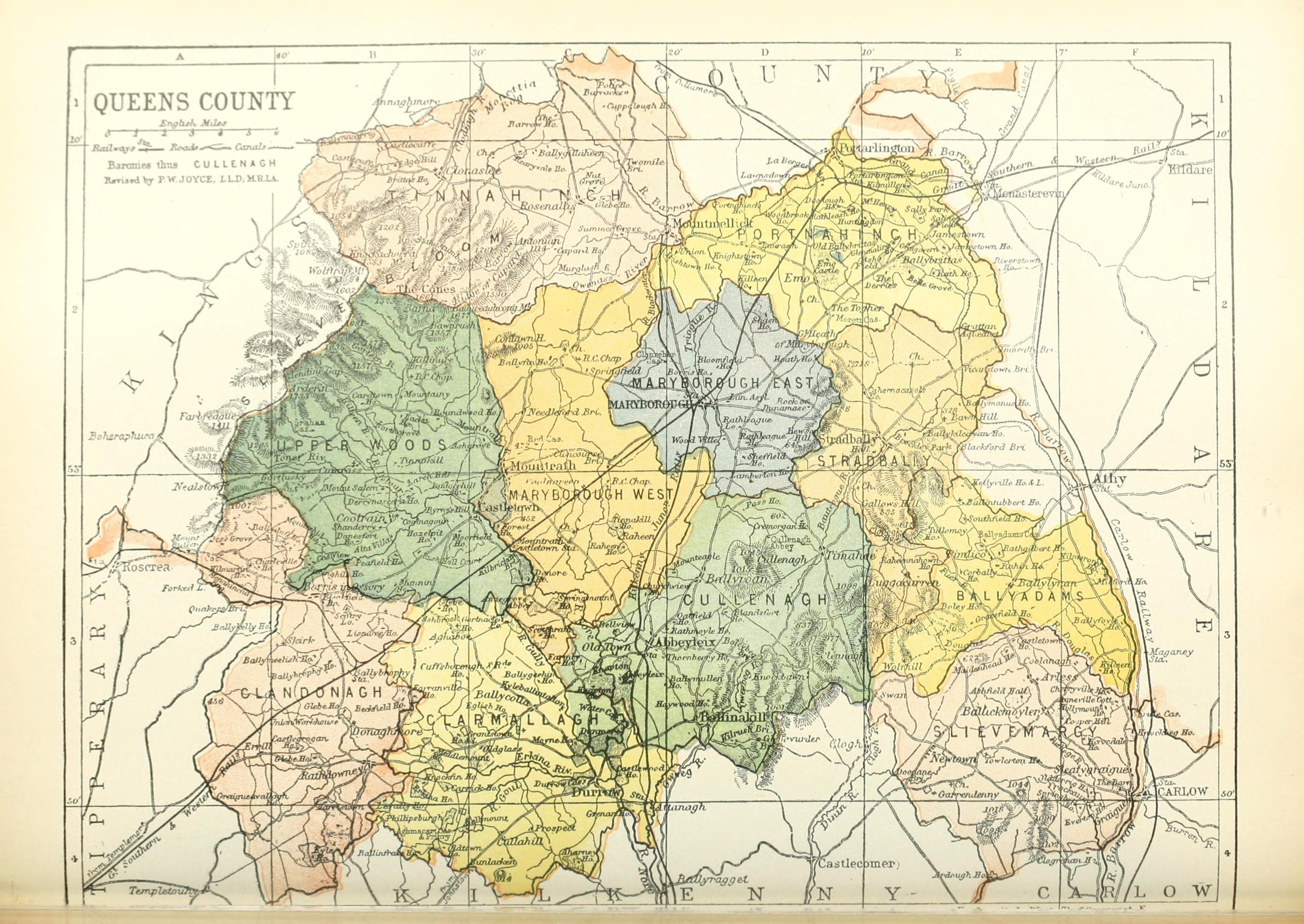 Map of the baronies of County Laois (formerly Queen's County) in Ireland; taken from Atlas and cyclopedia of Ireland, p.245